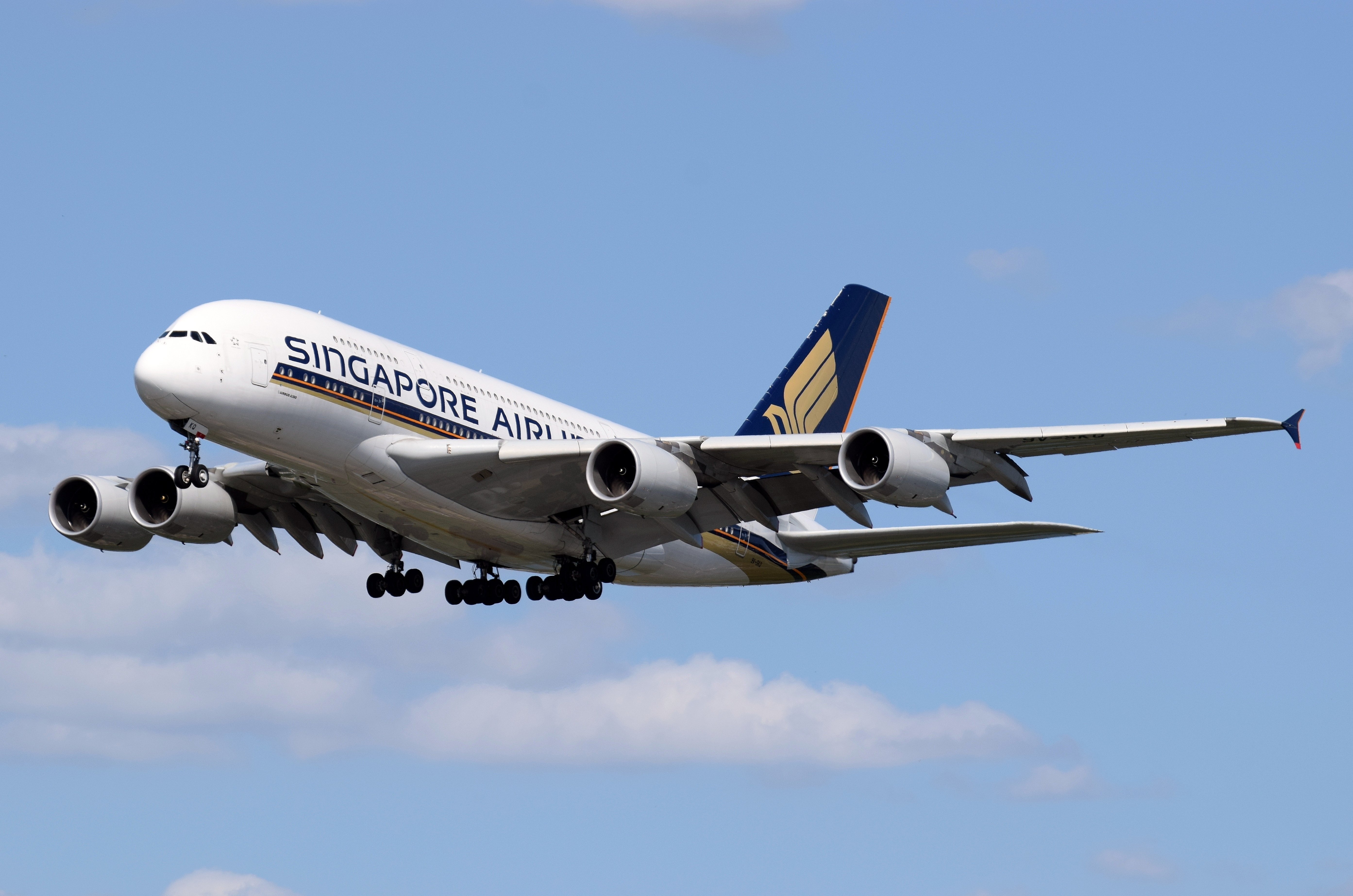 Singapore Airlines Airbus A380 (9V-SKD) arrives London Heathrow Airport.